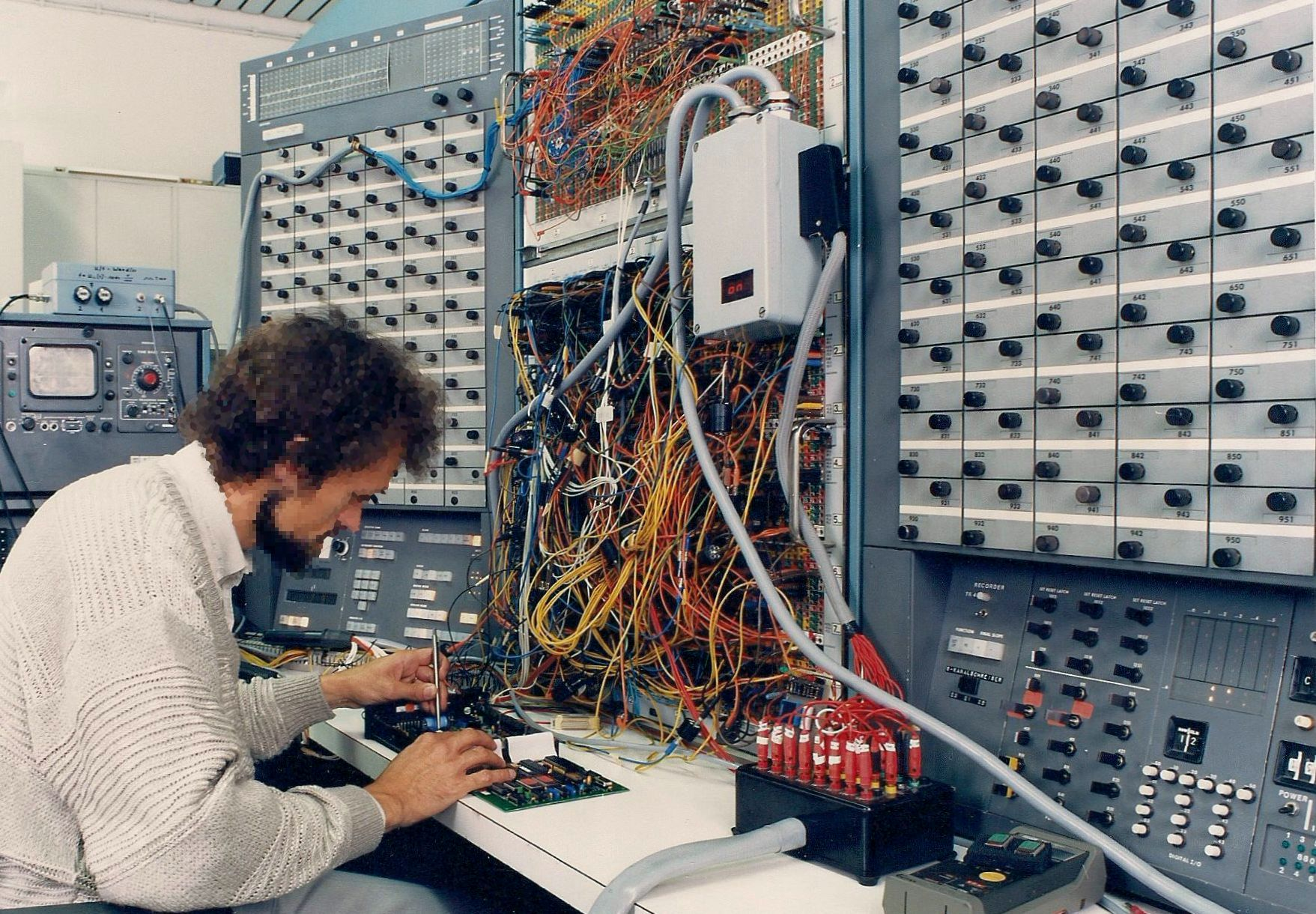 Analog computer application for the simulation of the controlled system with an external feedback control system based on a microcontroller interfaced as hardware-in-the-loop, with EAI-8800 analog computer, ca 1985